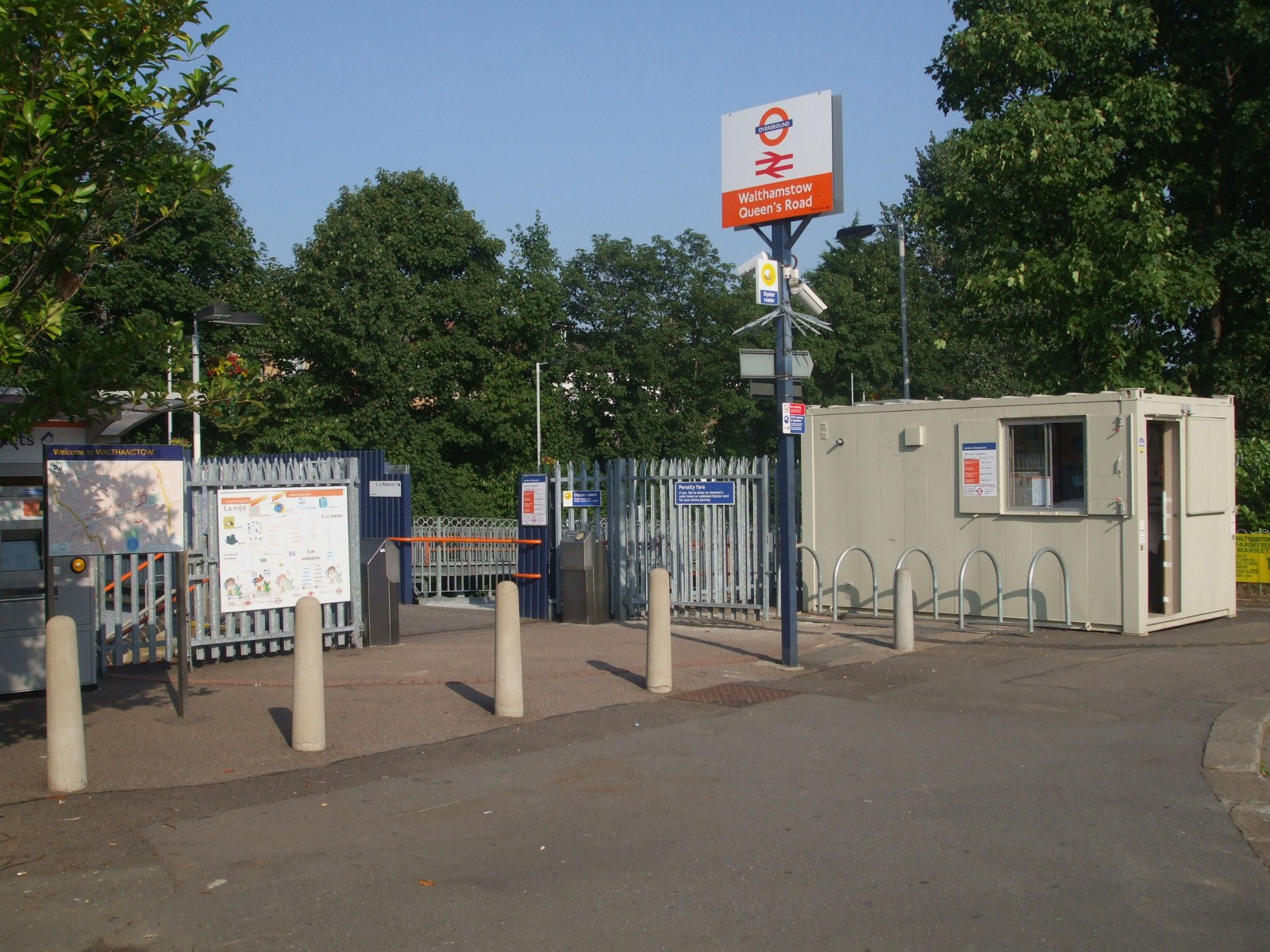 Walthamstow Queen's Road station entrance, in Overground colours. Temporary sign as of summer 2008.